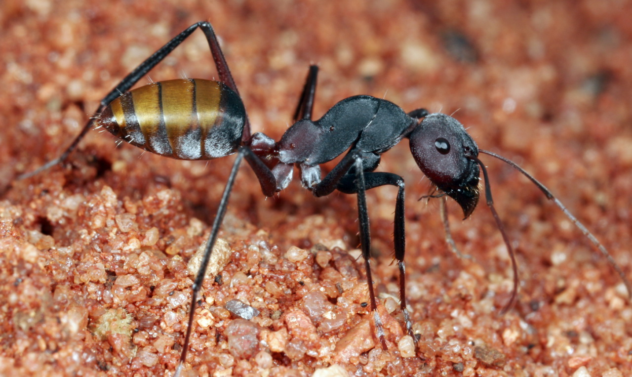 Australian Camponotus come in a wide range of sizes and colours, but this arid-zone species (C. aurocinctus) is one of the most striking.